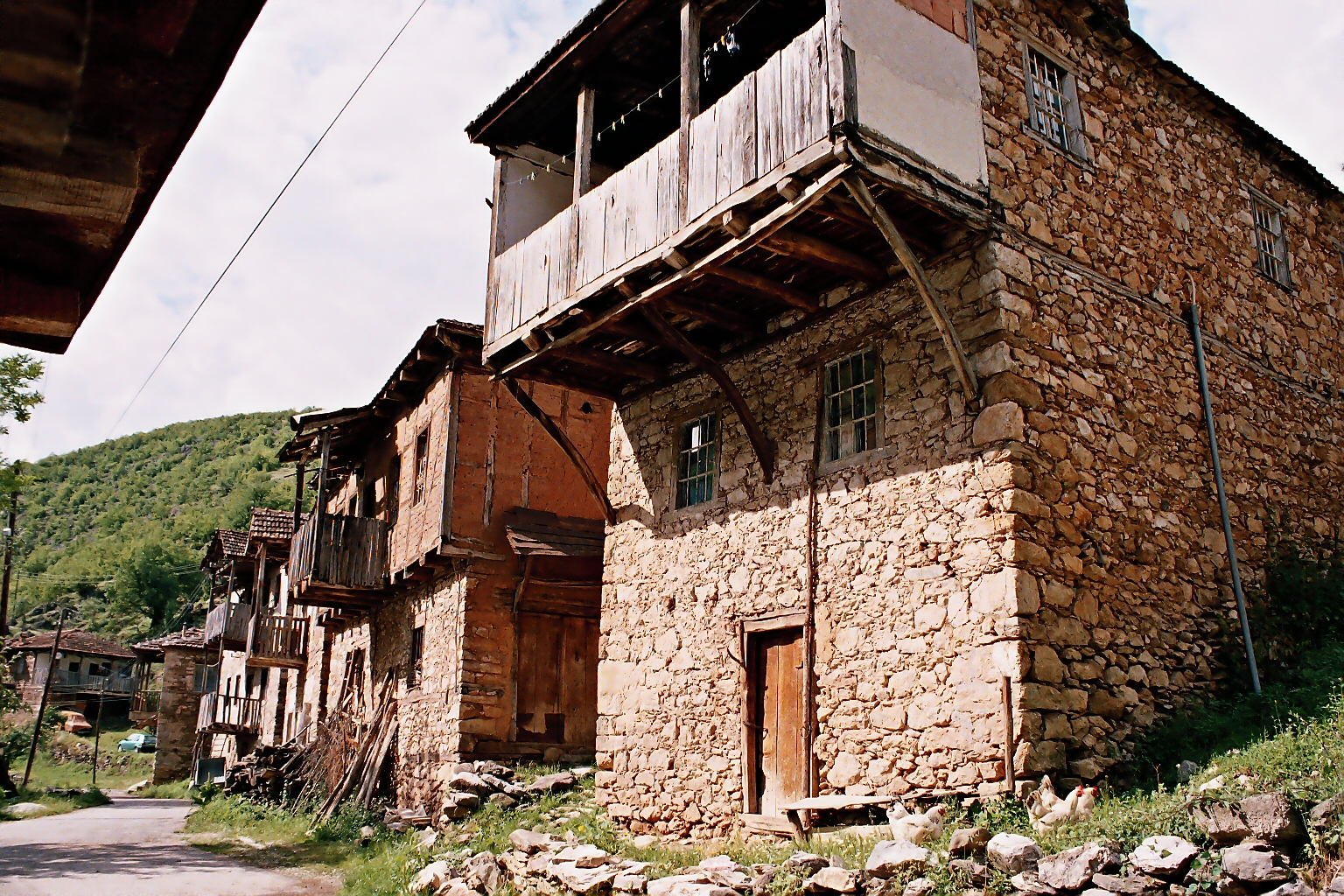 Stari kuki